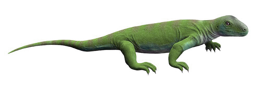 Life reconstruction of Bolosaurus striatus.